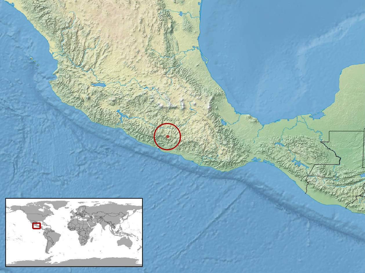 geographic distribution of Ficimia ruspator (Native: Mexico)